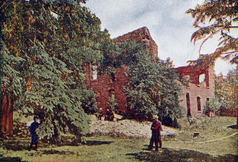 Ruins of Michael Chambers home on Saint Louis River, Duluth, Minnesota; from a 1907 postcard published by the Ames-Huntley Company, Duluth, Minnesota. Chambers ran a stone quarry nearby and his home site is now Chambers Grove Park in the Fond du Lac neighborhood of Duluth.